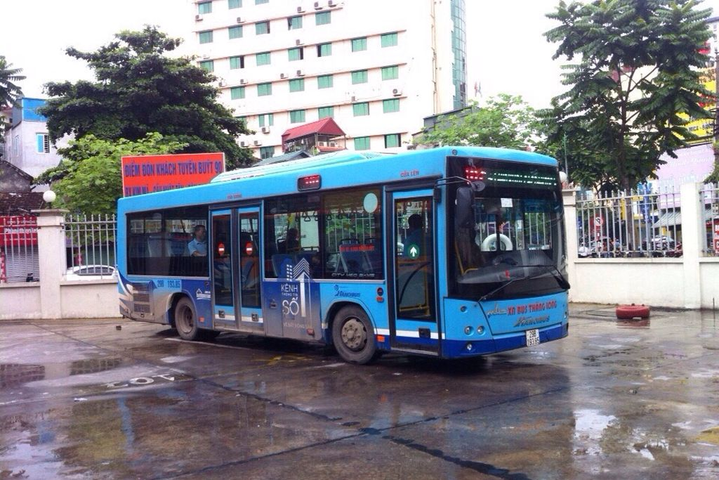 This bus is used in Hanoi